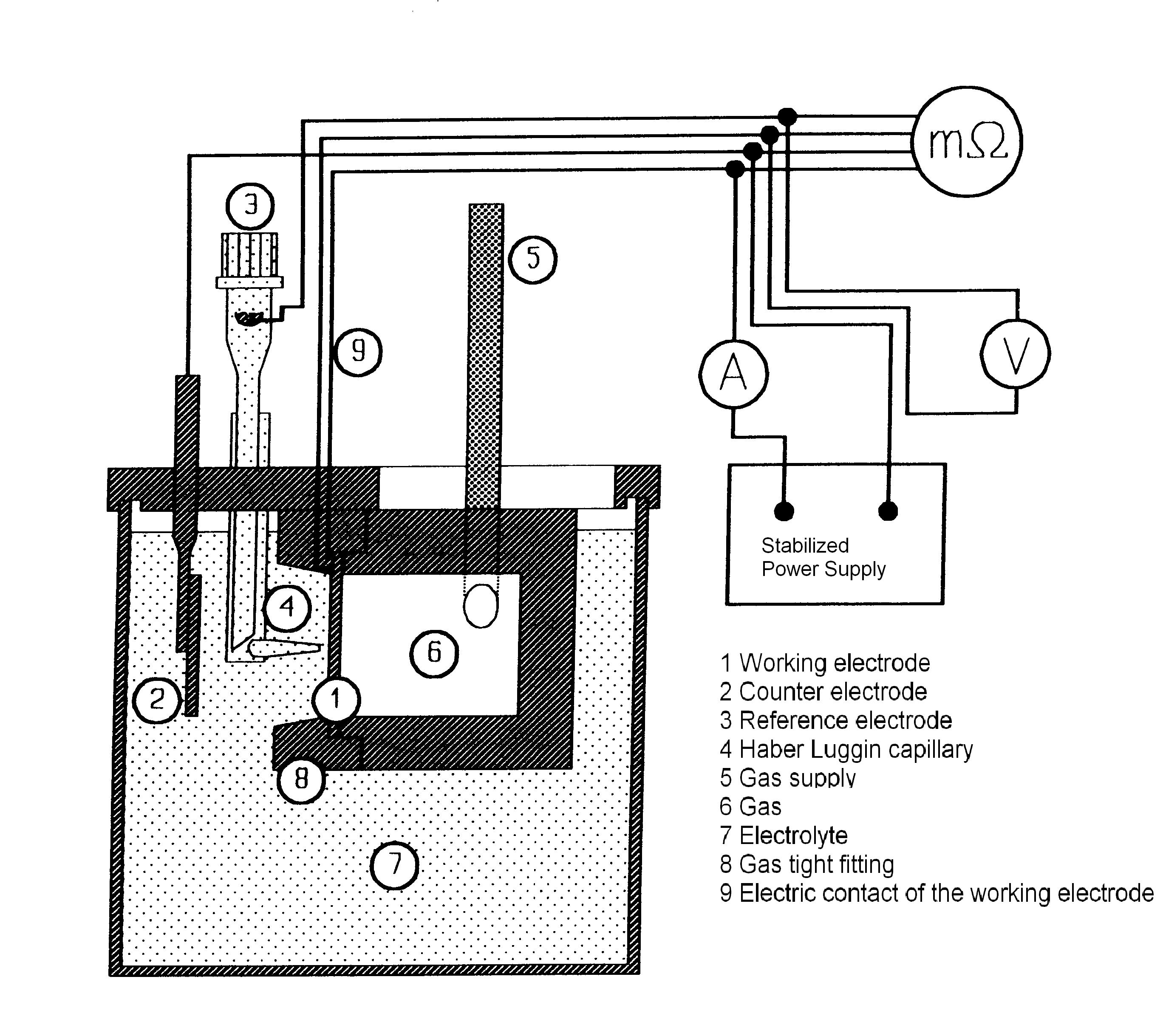 Schematic drawing of a test cell for gas diffusion electrodes